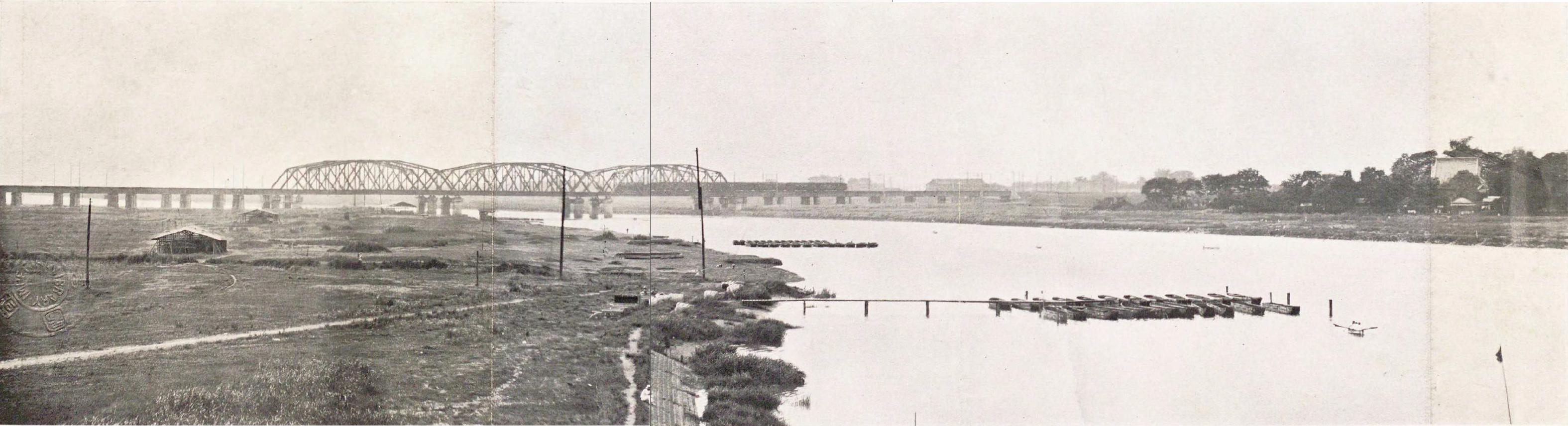 Photo of second Arakawa railway bridge on Tohoku mainline